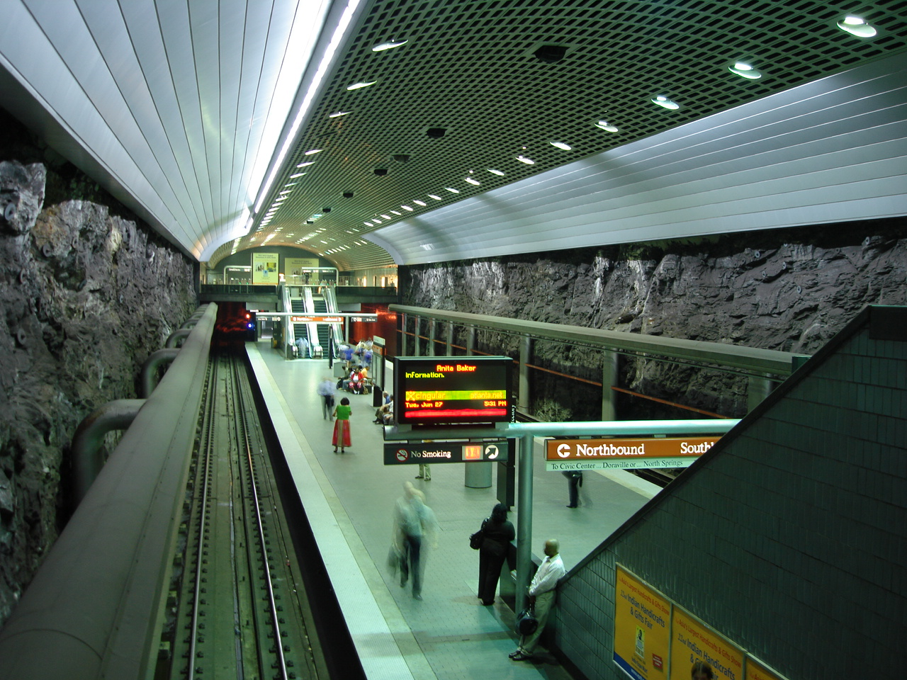 better happier pic of p-tree center!! :) dekalb.